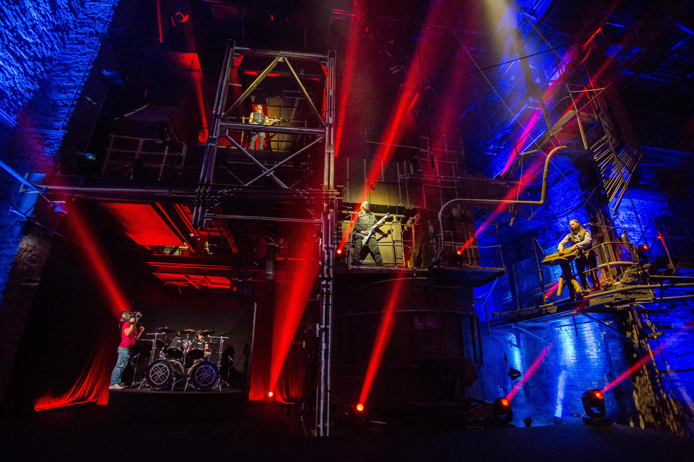 Metsatöll performing at the opening ceremony